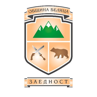 Coat of arms of Belitsa, Bulgaria